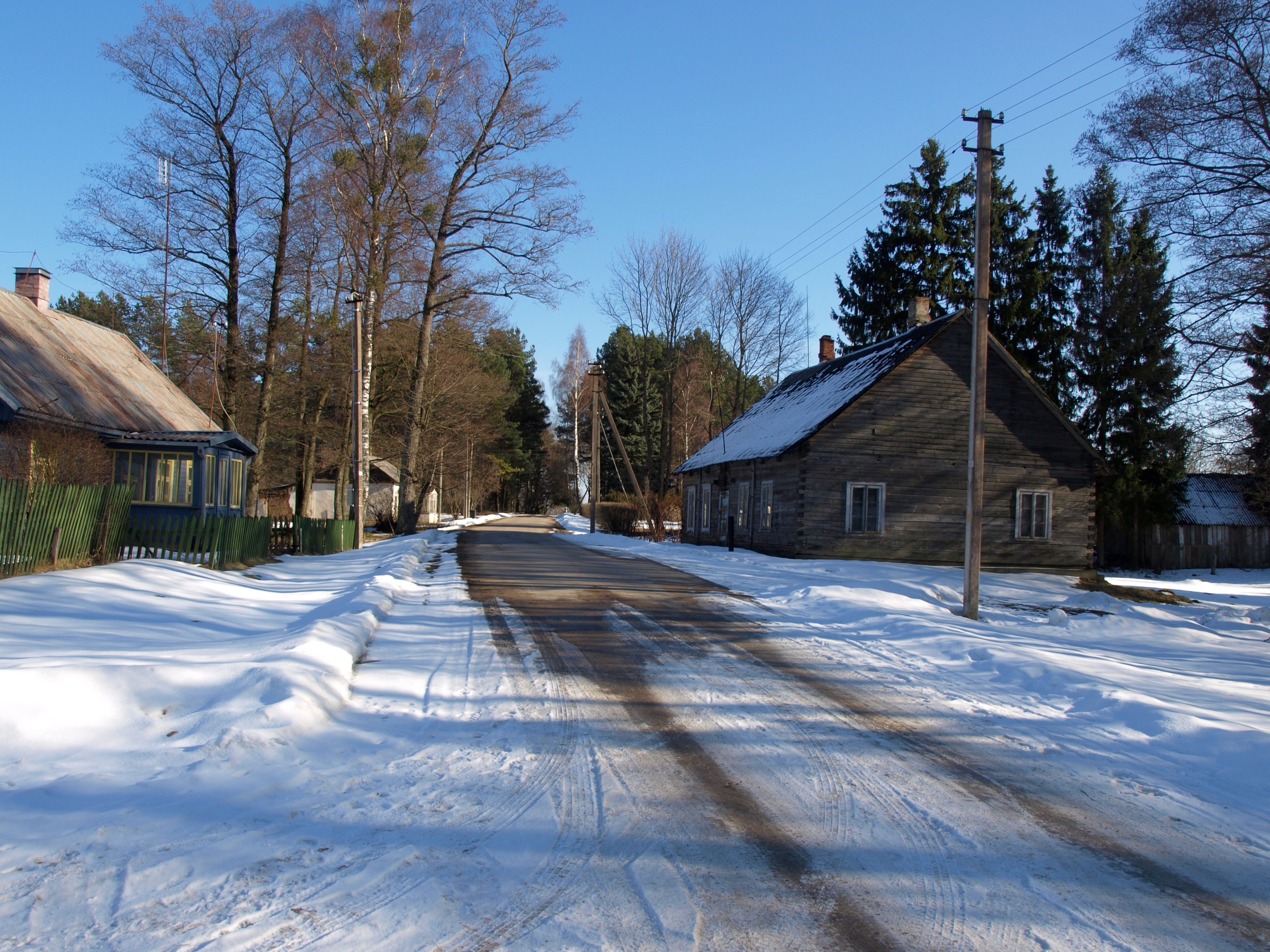 Ryliškiai, Alytus district